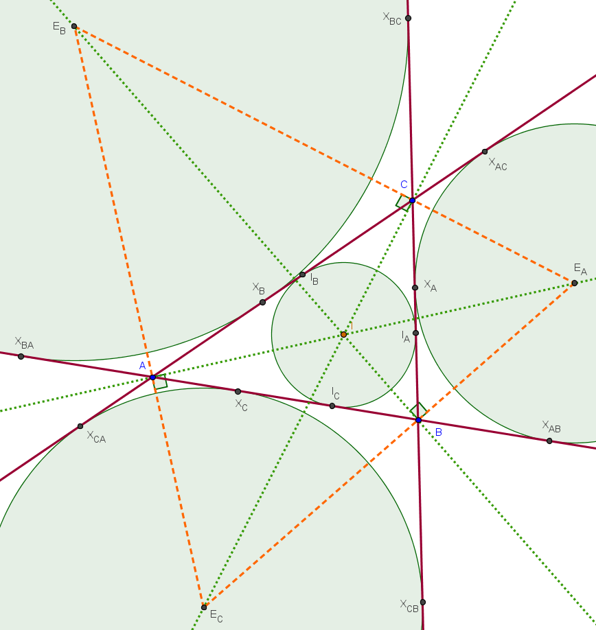 Excenter triangle